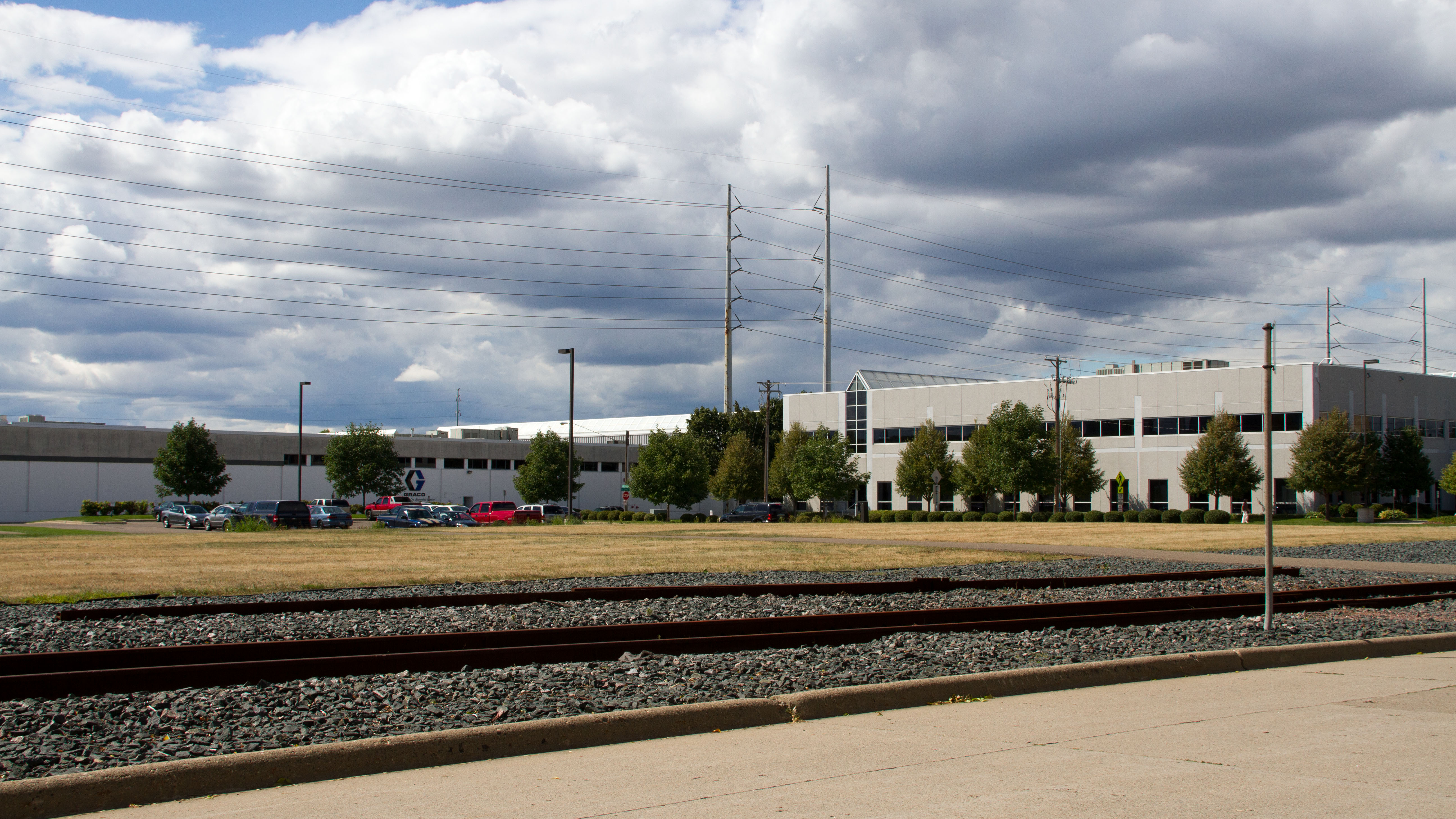 The headquarters complex of Graco, Minneapolis, Minnesota, USA.